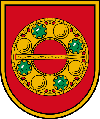 Coat of arms of Alsunga Municipality, Latvia.